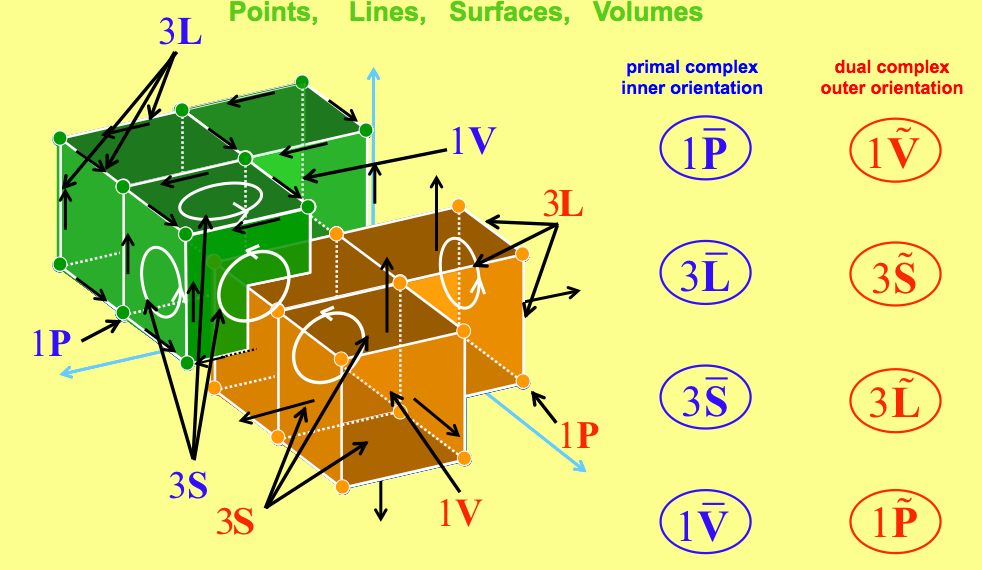 Primal/Dual complex